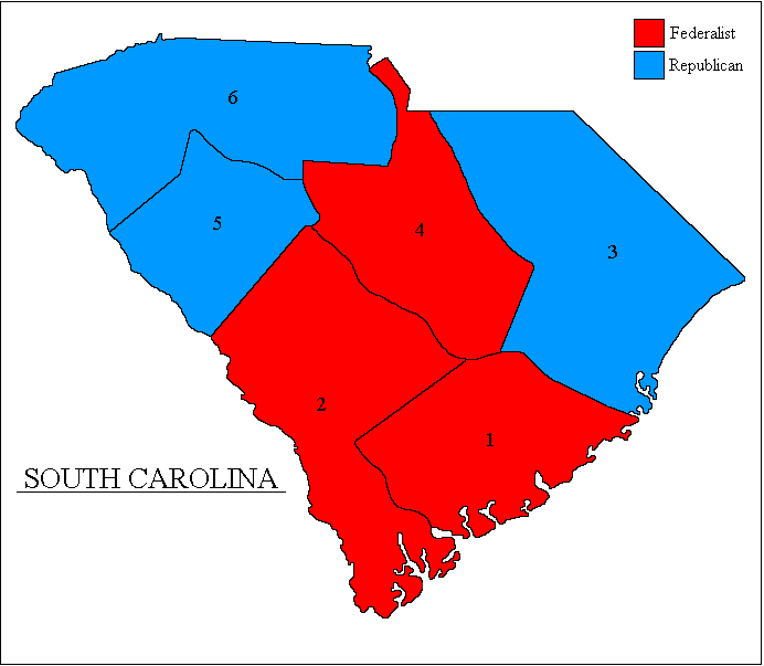 Congressional district map of South Carolina for the 5th Congress, 1796